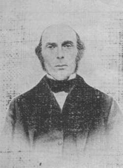 A portrait of Amand Landry (1805-1877), canadian politician.